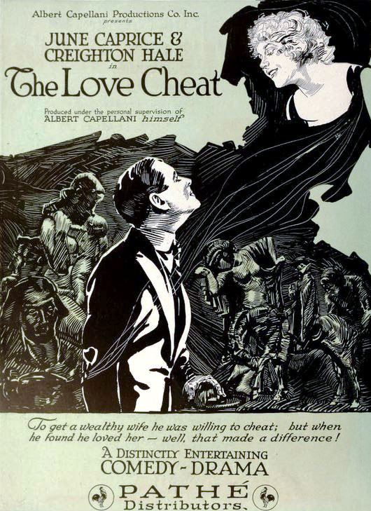 Ad for the American film The Love Cheat (1919) with June Caprice and Creighton Hale, page 1590 of the August 23, 1919 Motion Picture News.